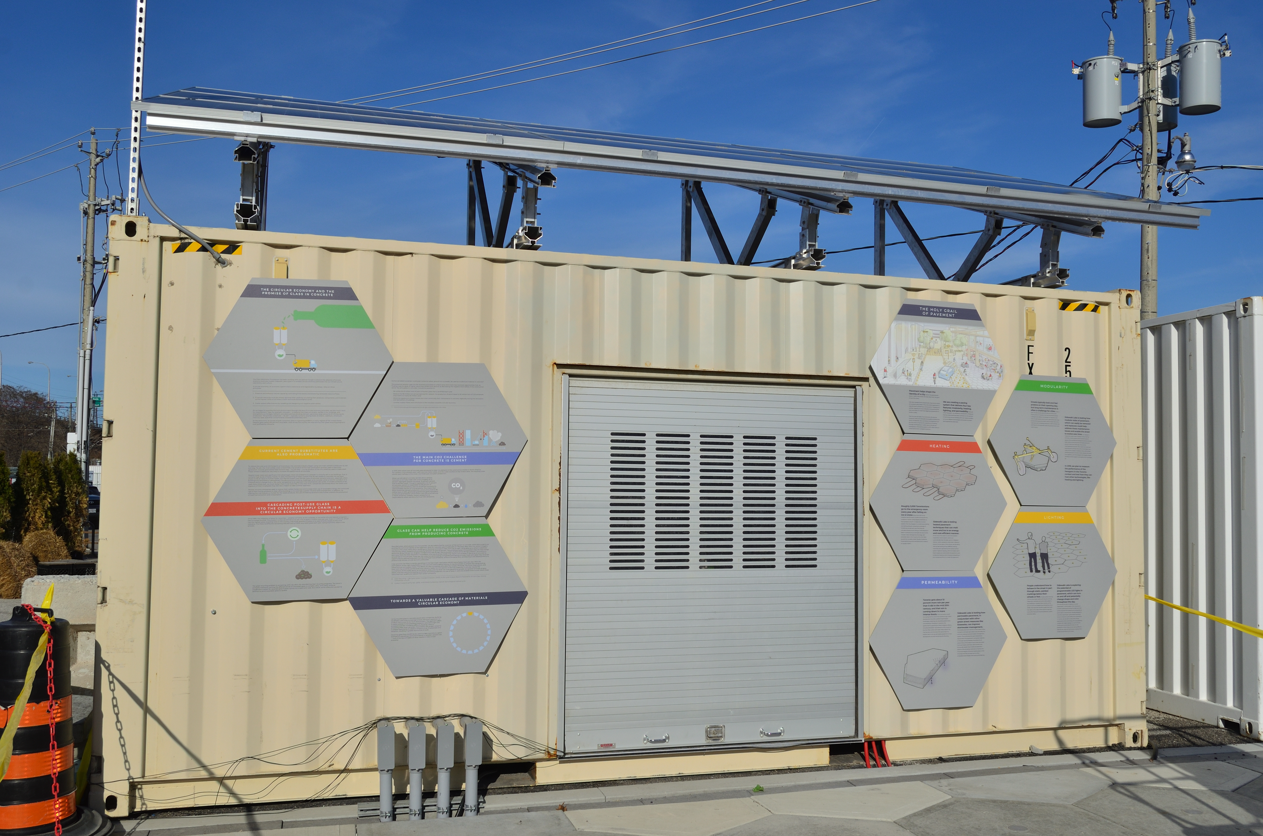 Sidewalk Labs Toronto office - address: 307 Lake Shore Blvd E, Toronto, ON M5A 1C1